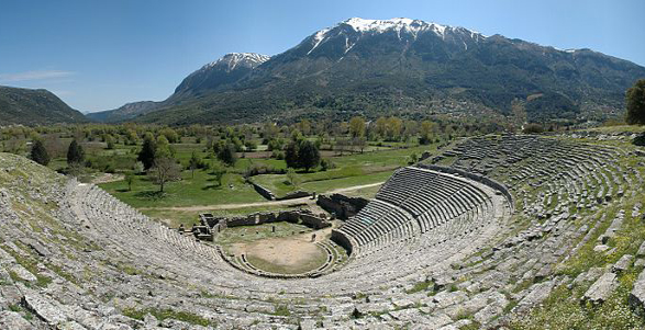 The ancient theater of Dodona, Epirus, Greece. Panorama of several photos.